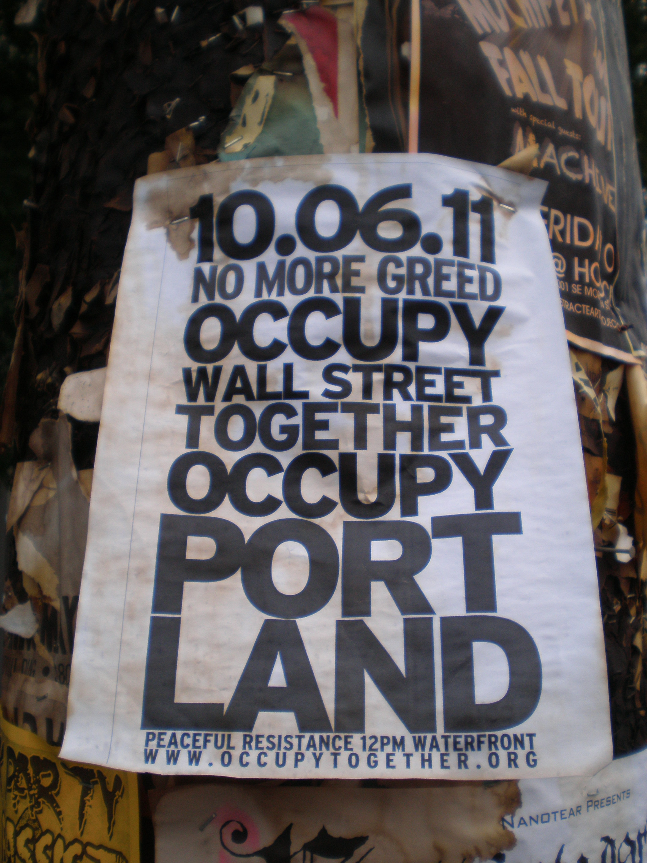 Poster for Occupy Portland (displayed on Belmont in southeast Portland, Oregon)